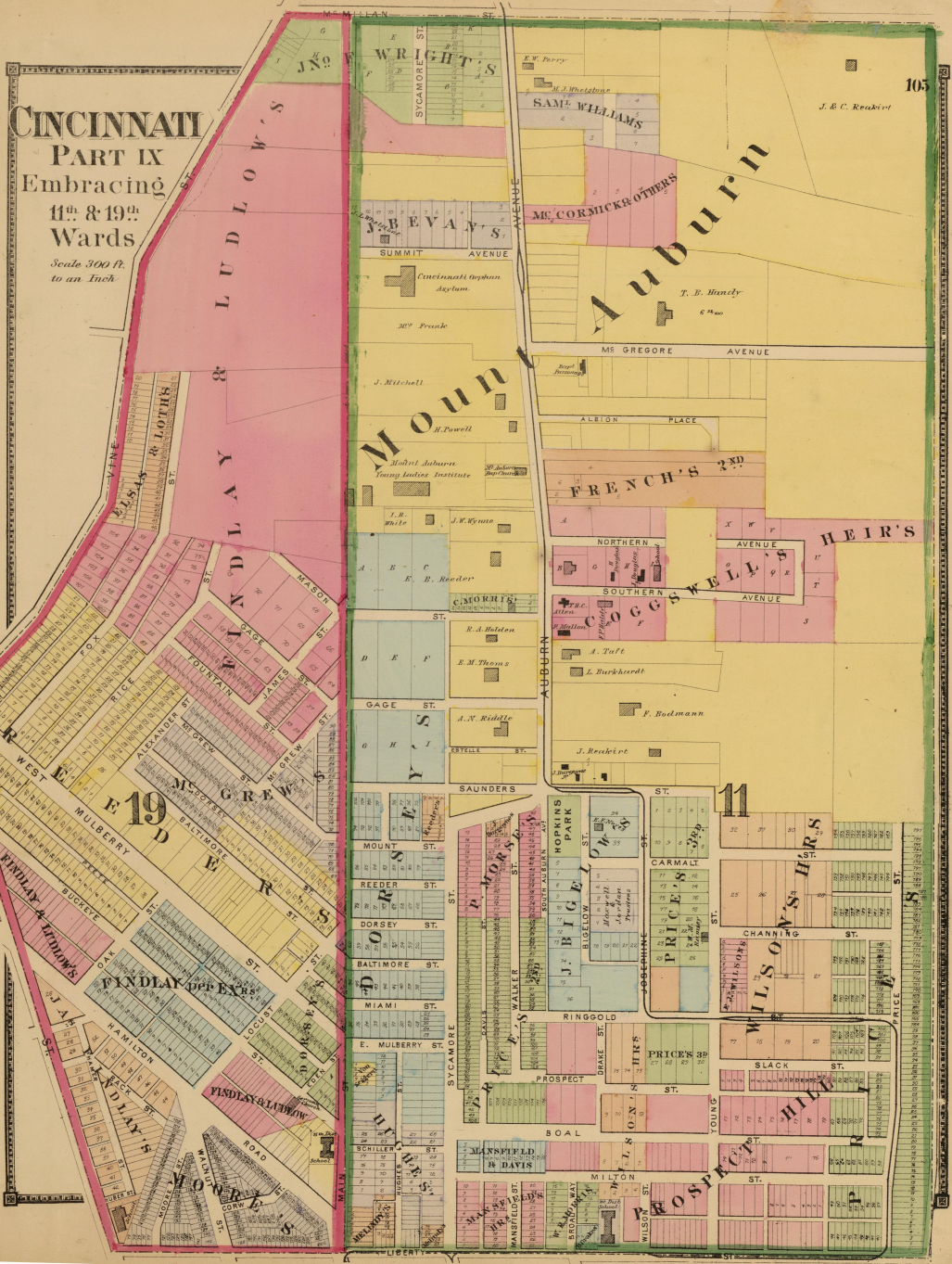 Author: (Harrison, Robert H.; Titus, Clarence O.) Date: 1869 Short Title: Cincinnati 9, wards 11, 19. Publisher: Philadelphia: C.O. Titus Type: Atlas Map Obj Height cm: 46 Obj Width cm: 35 Scale 1: 3,600 Note: Two hand col. lithographed maps on 1 sheet. Shows numbers, tracts, owners of large parcels, major buildings, etc. State/Province: Ohio City: Cincinnati (Ohio) ; Mount Auburn (Cincinnati, Ohio) Full Title: Cincinnati part IX embracing 11th & 19th wards. (1869) List No: 3748.036 Page No: 105 Series No: 40 Engraver or Printer: Worley & Bracher ; Bourquin, F. (Frederick), b. 1808 Publication Author: Harrison, Robert H.; Titus, Clarence O. Pub Date: 1869 Pub Title: Titus' atlas of Hamilton Co., Ohio from actual surveys by R.H. Harrison, C.E. Assisted by Geo. E. Warner, A. Leavenworth, J.E. Sherman, L.C. Warner & R.T. Higgins, to which is added a township map of the state of Ohio. Also an outline & railroad map of the United States. Published by C.O. Titus. 320 Chestnut St., Philadelphia, 1869. Assistants T.F. Pratt, Cyrus Haven, H. Turner, G.P. Stevenson, J.H. Hall, D.B. Titus, G.M. Stevenson. Engd. by Worley & Bracher, 320 Chestnut St., Phila. Printed by F. Bourquin, 320 Chestnut St., Phila. Entered ... 1869 by C.O. Titus ... Pennsylvania. Pub Reference: LeGear. Atlases of the United States, 2803; Phillips, 2381; Phillips. Maps of America, p. 315; Checklist of printed maps of the Middle West to 1900, 2-1047. Pub Note: See note field above. Pub List No: 3748.000 Pub Type: County Atlas Pub Maps: 39 Pub Height cm: 48 Pub Width cm: 40 Image No: 3748036 Institution: Rumsey Collection Ownership Statement: Copyright 2007 This historical cartographic image is part of the David Rumsey Historical Map Collection, a large collection of online antique, rare, old, and historical maps, atlases, globes, charts, and other cartographic items. External links Historic Maps of Mount Auburn (Cincinnati, Ohio)